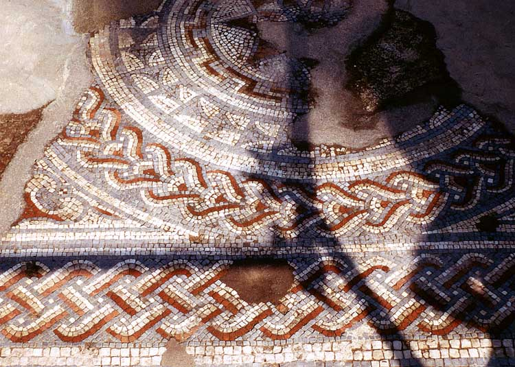 A small part of the Roman mosaic (called the Great Pavement) at Woodchester, Gloucestershire, England. The mosaic is 48 feet by 48 feet (15 metres by 15 metres) and uses 1.5 million pieces of stone, each 0.5 by 0.5 inches (12 mm by 12 mm ). Once the floor of a main hall of a Roman villa, it was laid around AD 325. Photographed by Adrian Pingstone in 1972 (the last time the mosaic was on display). Prepared for Wikipedia by Adrian Pingstone in January 2004 and released to the public domain.